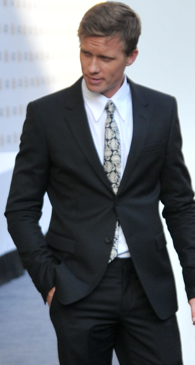 Warren Kole as Wes Mitchell in Common Law. USA Network Upfront Event 2012